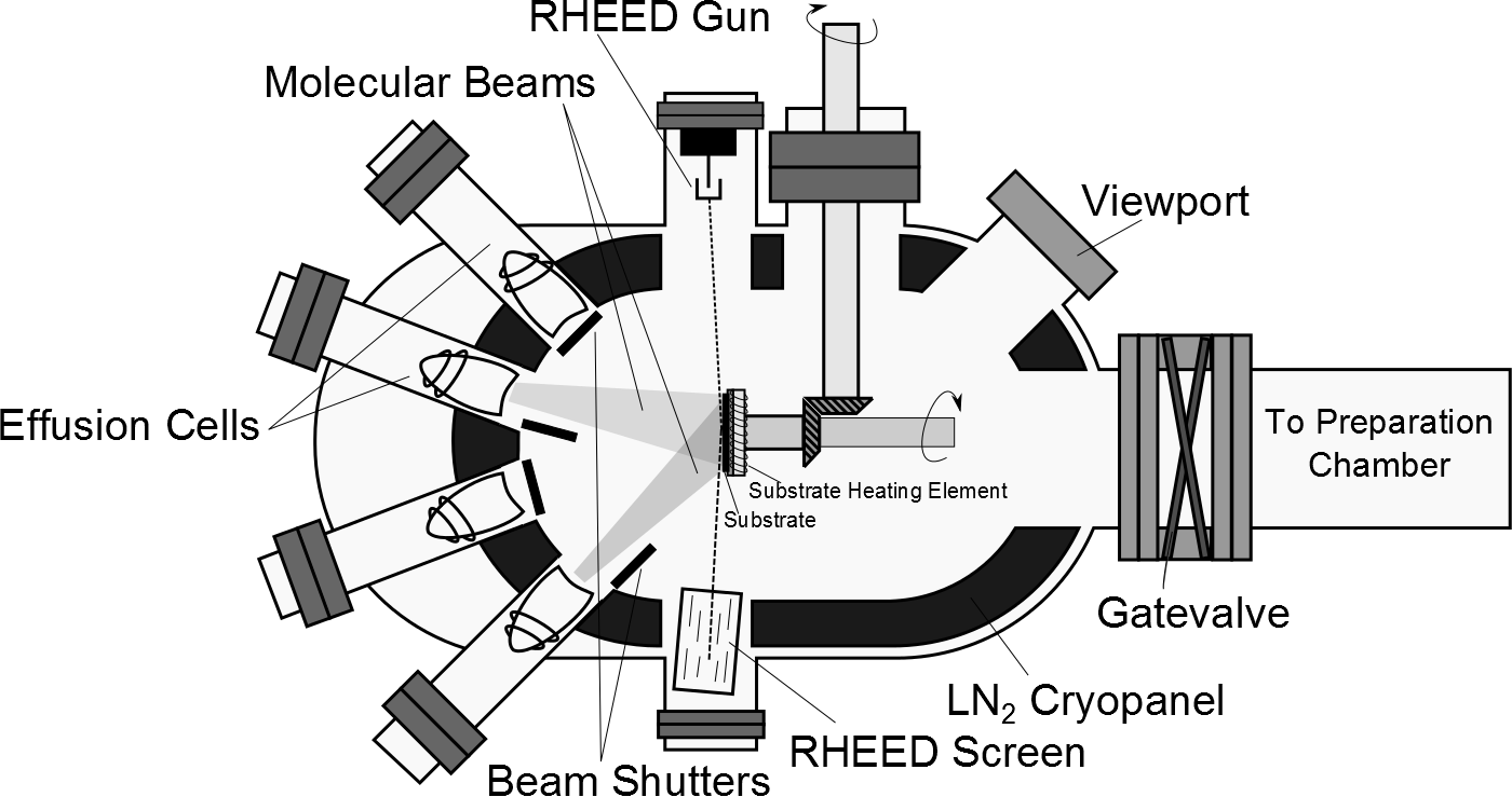 Concept Drawing of a Molecular Beam Epitaxy Growth chamber